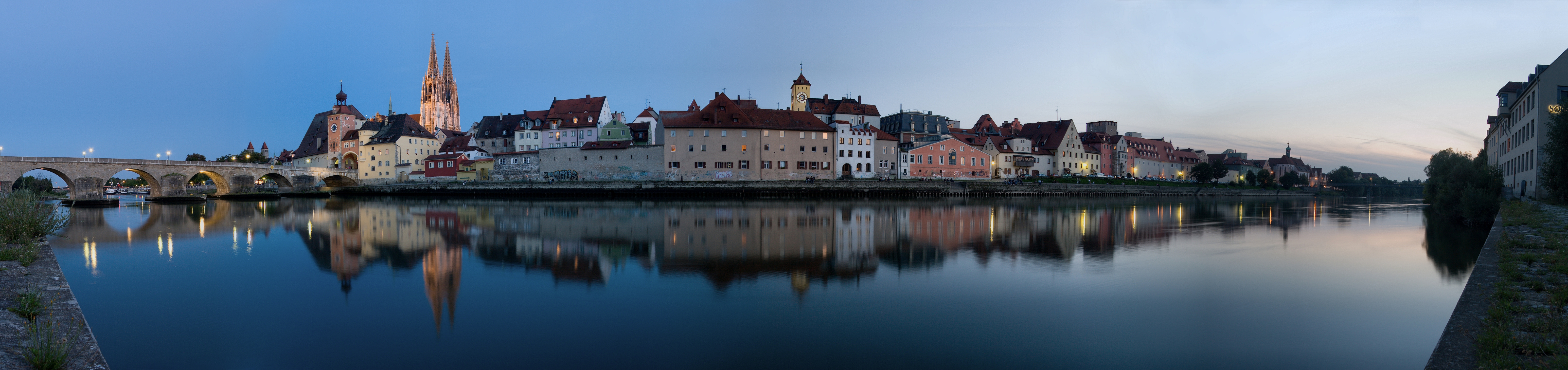 Twilight panorama of Regensburg, Germany